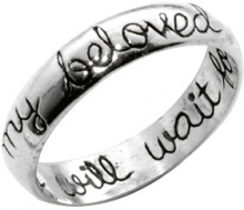 A Purity Ring made from sterling silver that has "I will wait for my beloved" print.